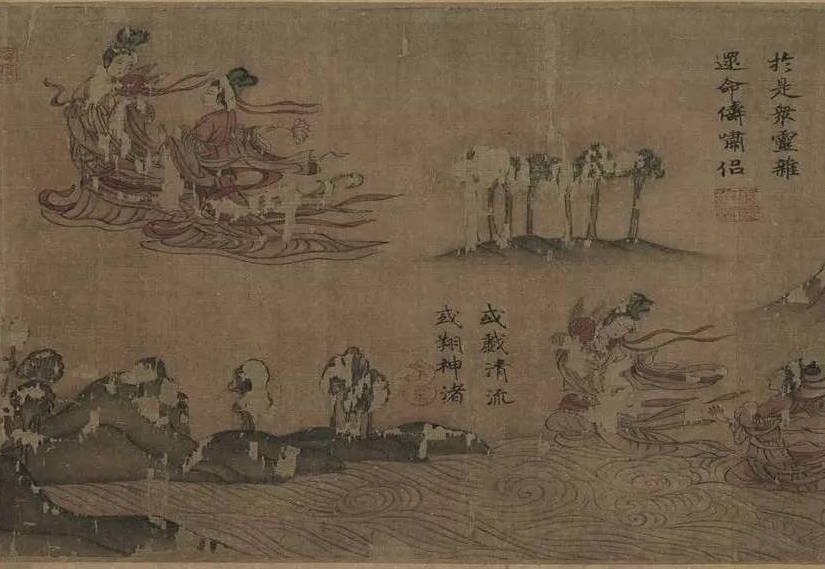 Goddess_of_luo_shui